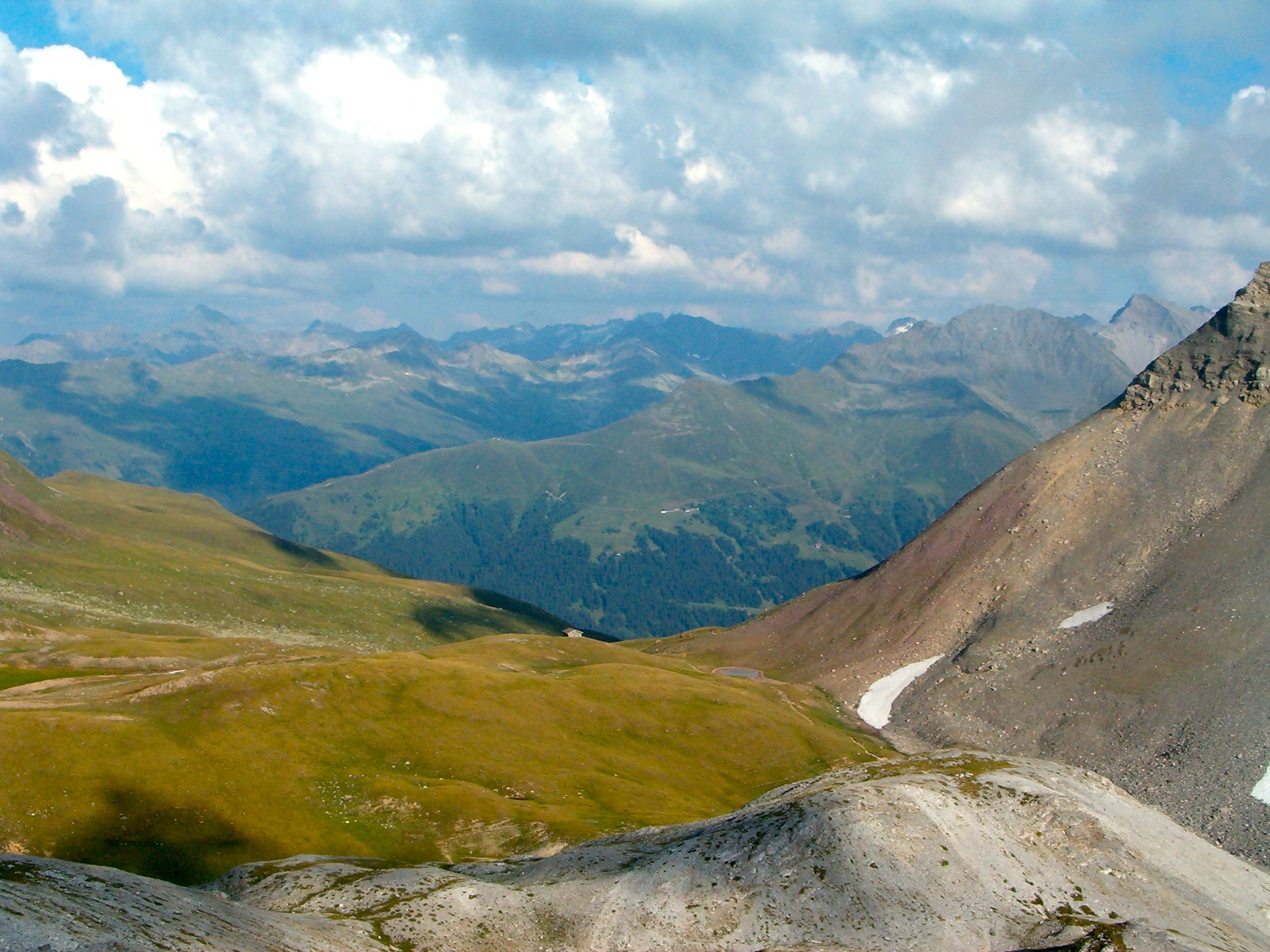 Maienfelder Furgga with Rinerhorn in the back